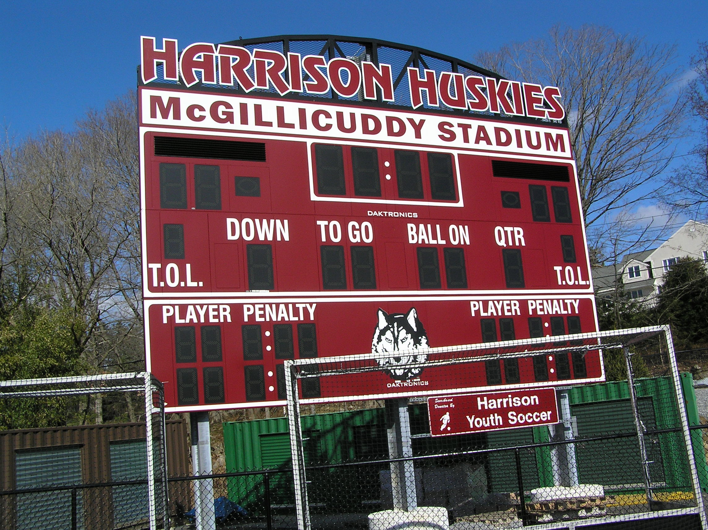 The scoreboard at McGillicuddy Stadium, Harrison High School, Harrison, New York